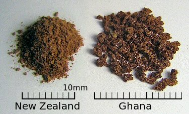 Nestlé Milo differs among regions, as can be seen in this side-by-side comparison of Milo from New Zealand and Ghana.